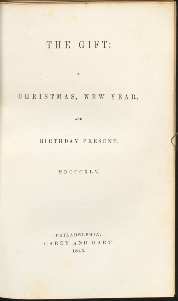 The cover of the magazine The Gift, 1845, published in Philadelphia, containing "The Purloined Letter" by Edgar Allan Poe.